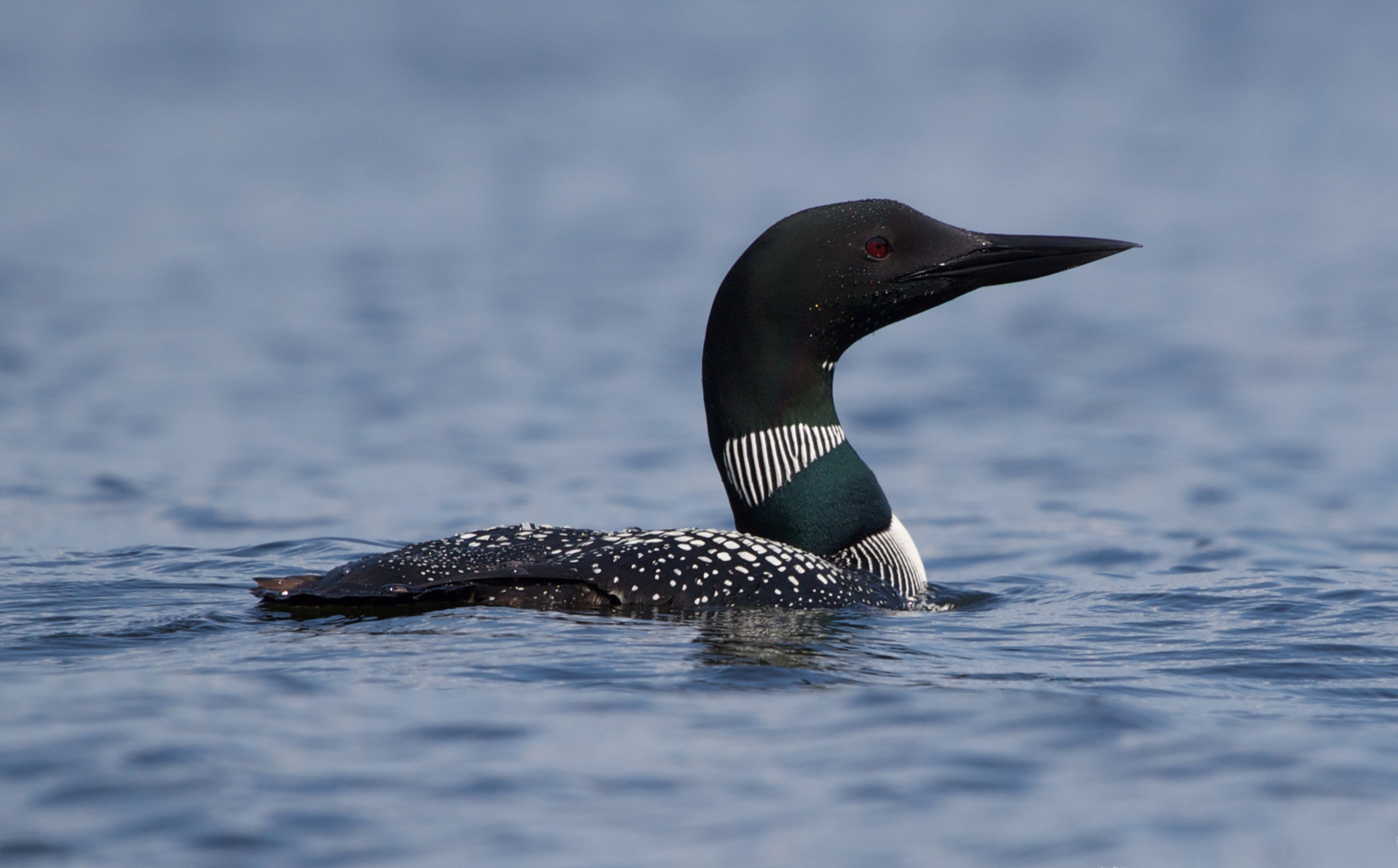 A Great Northern Loon (also known as Great Northern Diver and Common Loon) swimming on Gull Lake, Haliburton County, Ontario, Canada.